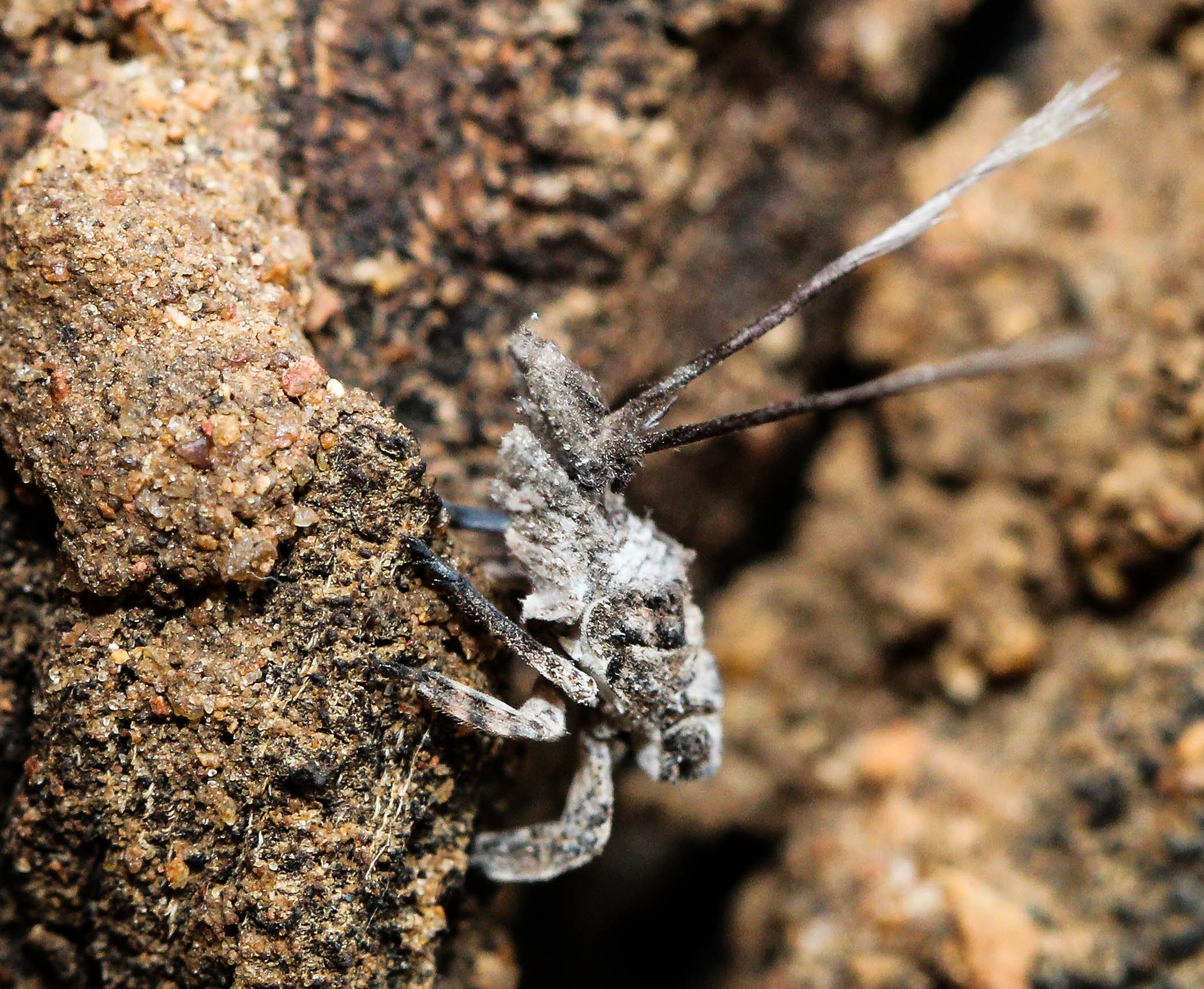 Nymph of Unidentified Eurybrachyidae observed in Botswana near Gaborone